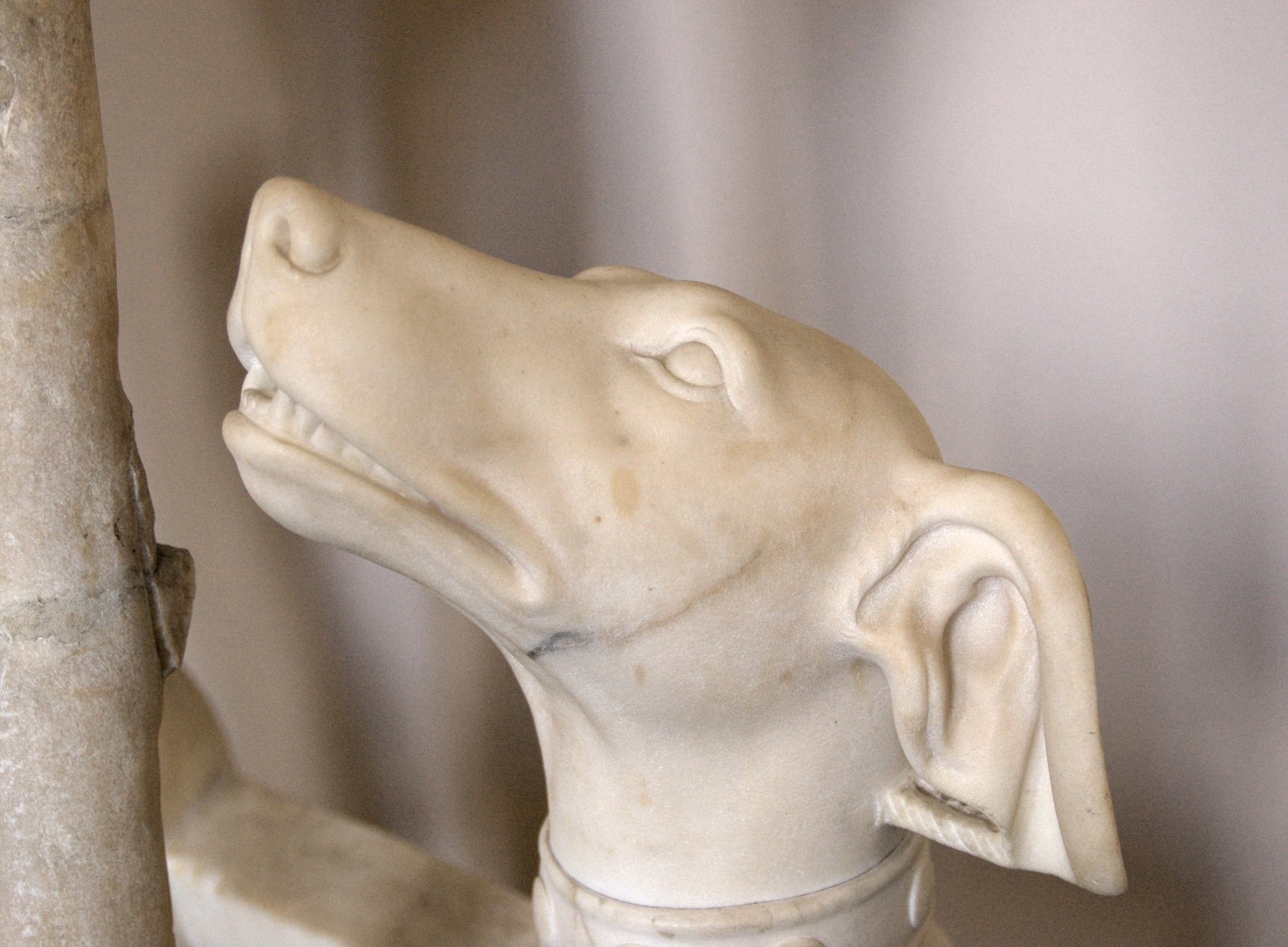 Statue of Meleager (detail), Roman copy after a Greek bronze original, ca. 340–330 BC.